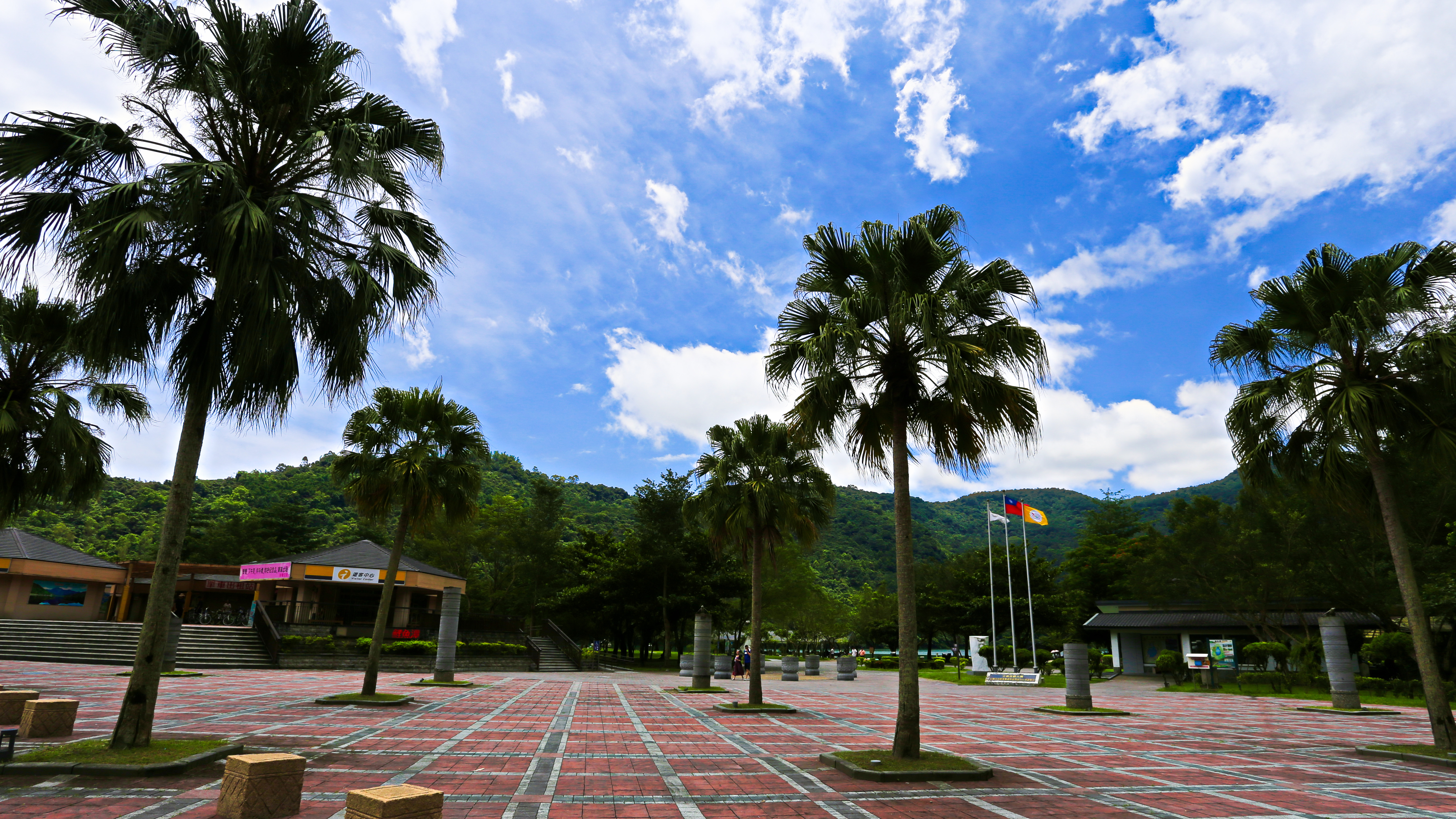 Liyu Lake, Shoufeng Township, Hualien County, Taiwan.